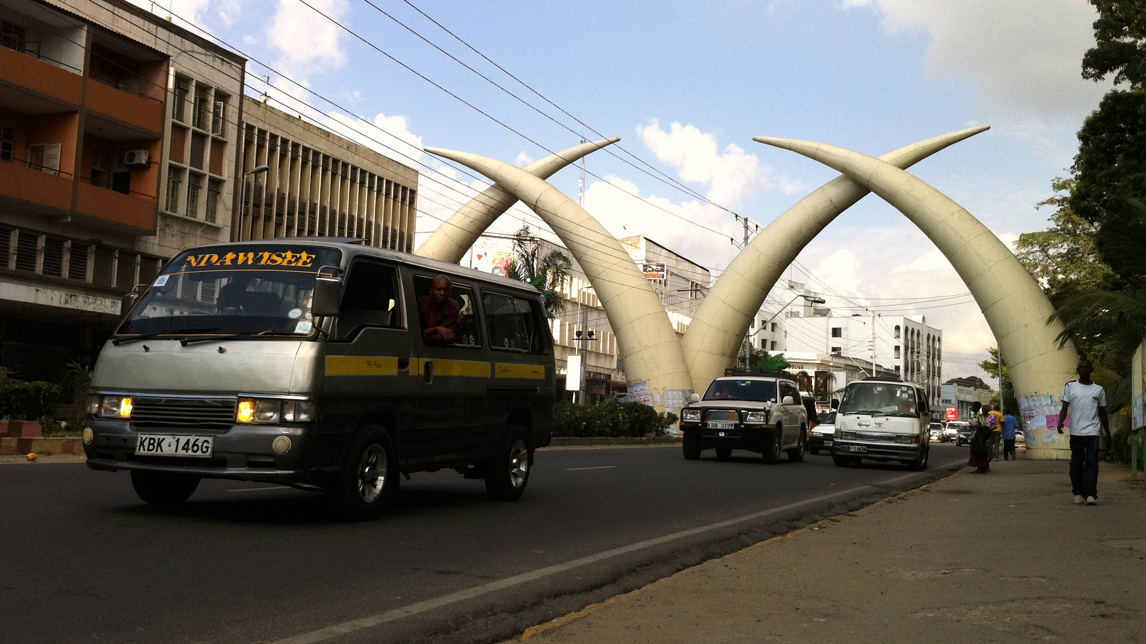 Small Matatu-Bus in Mombasa (Kenya)